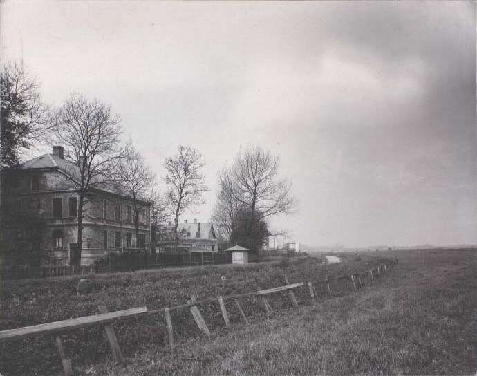 Ladegårdsåen (the Ladegård creek).